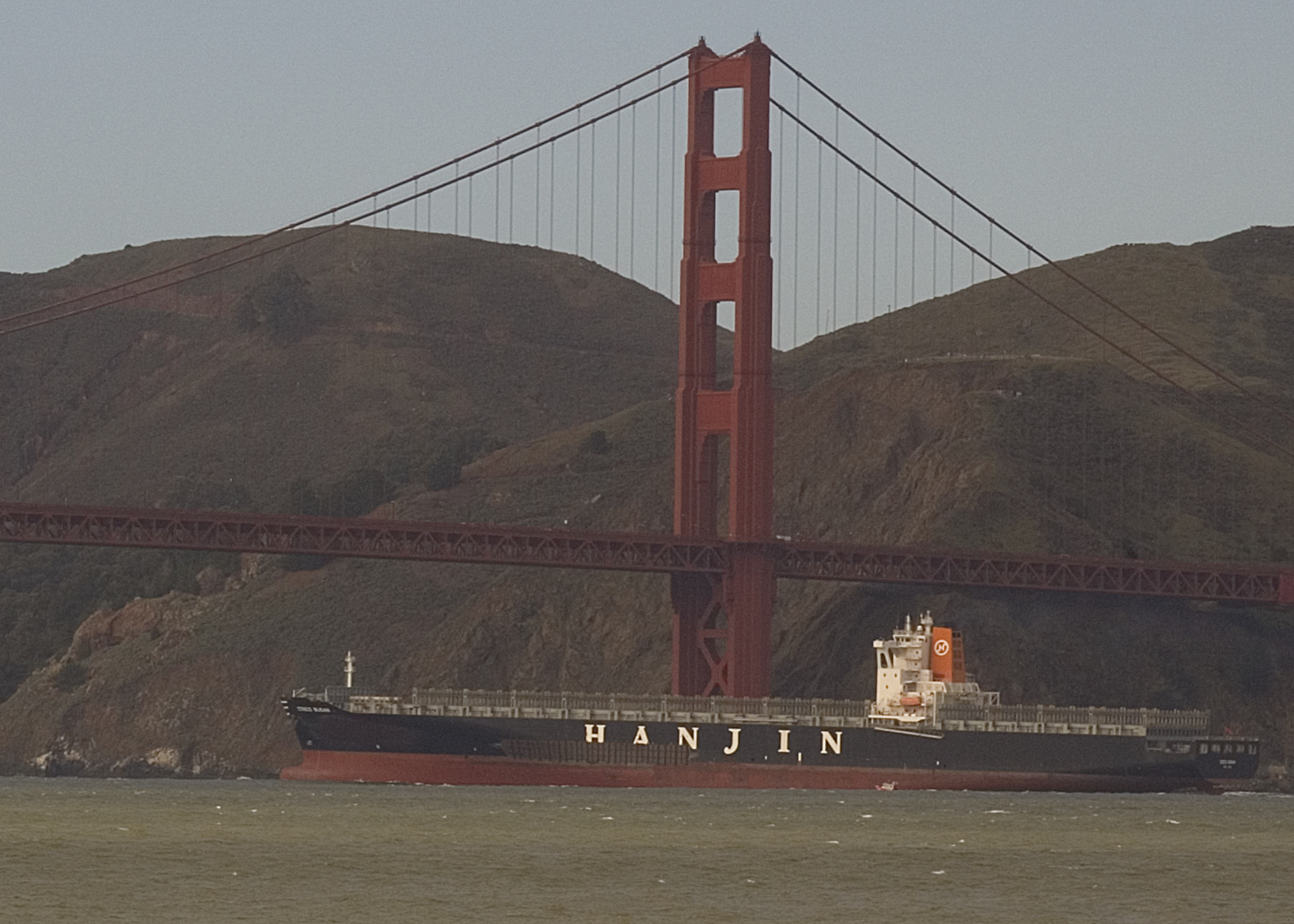 MV COSCO Busan departs San Francisco Bay under the Golden Gate Bridge.